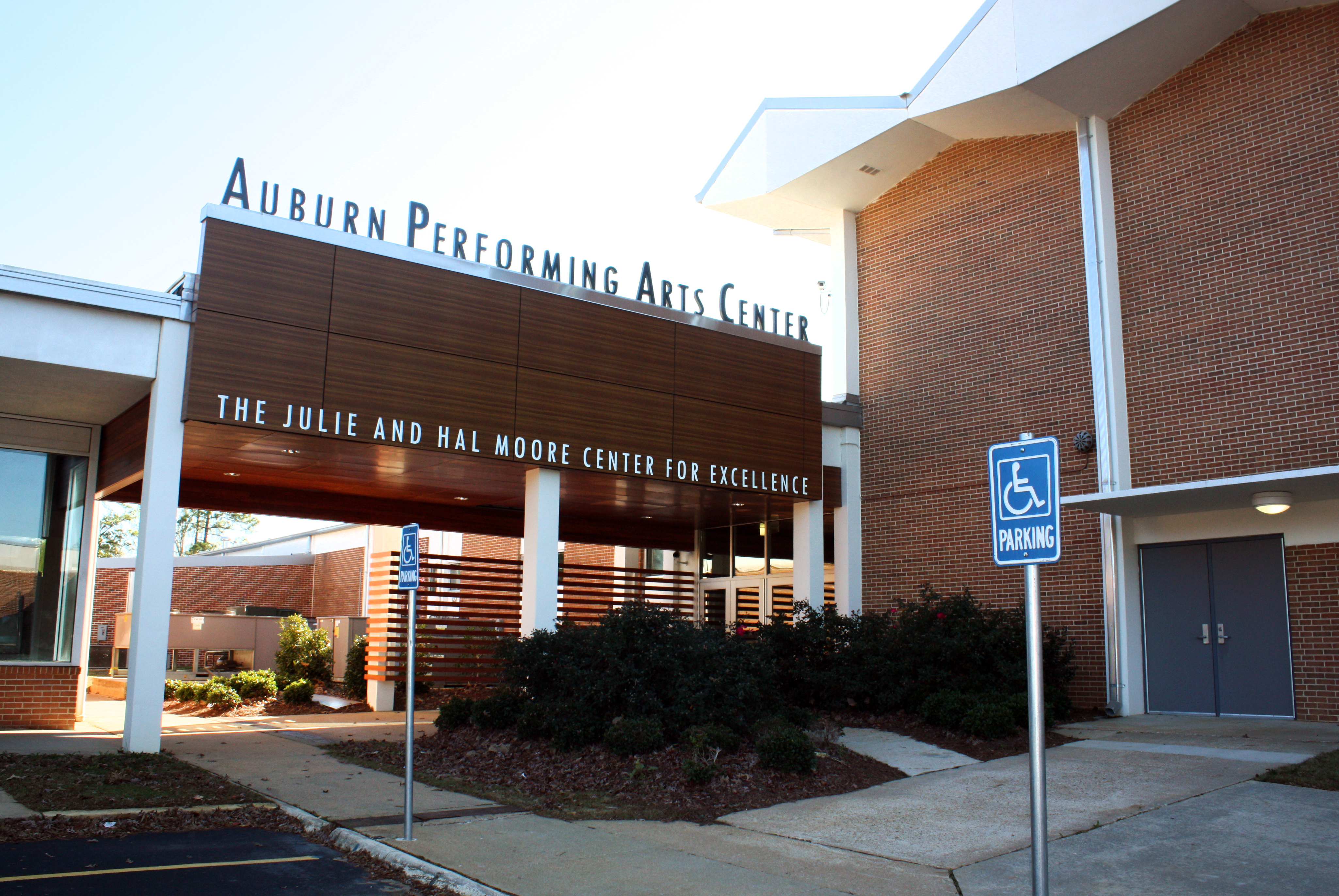 The Julie and Hal Moore Center for Excellence on the Auburn High School campus